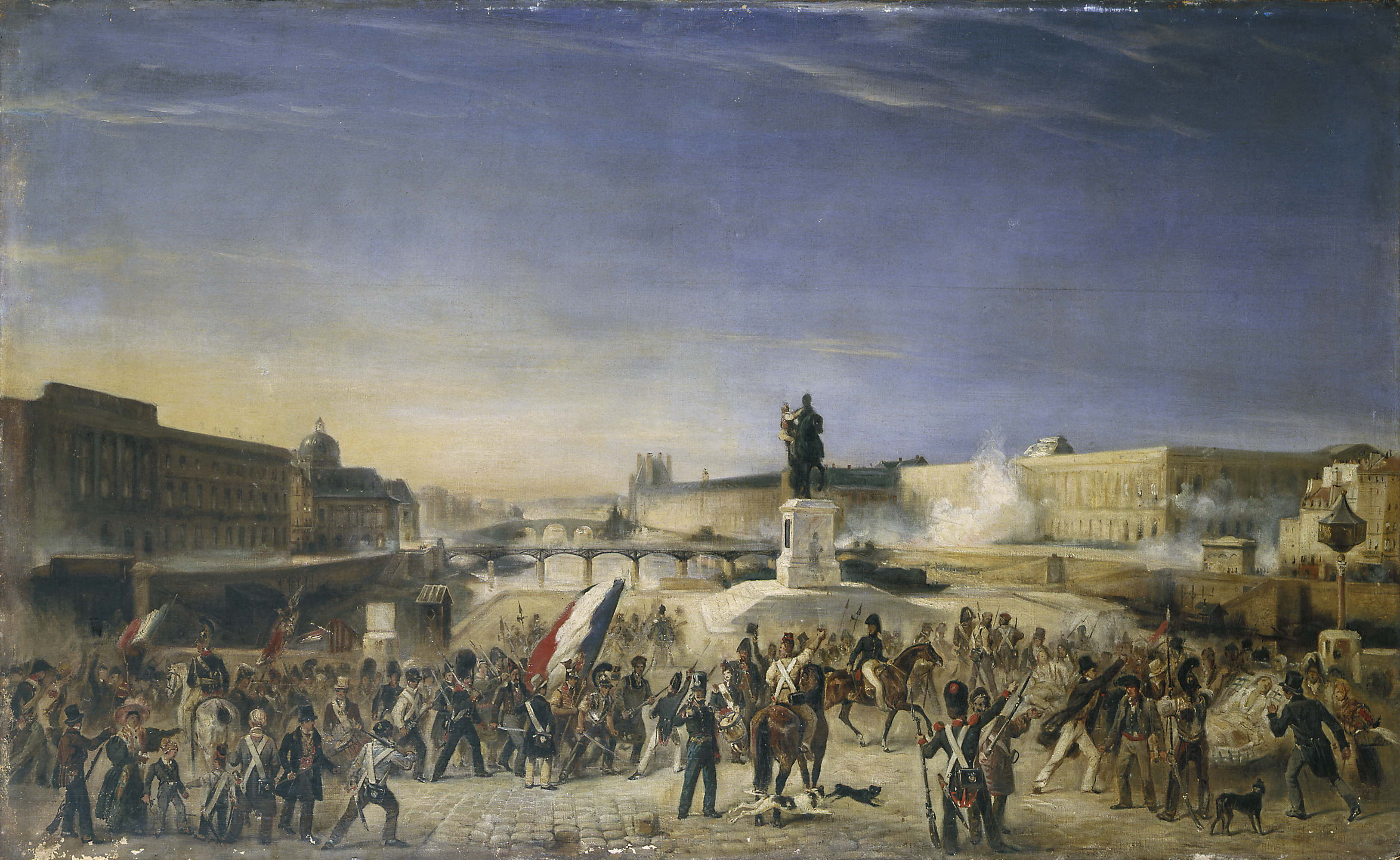 French Revolution of 1830